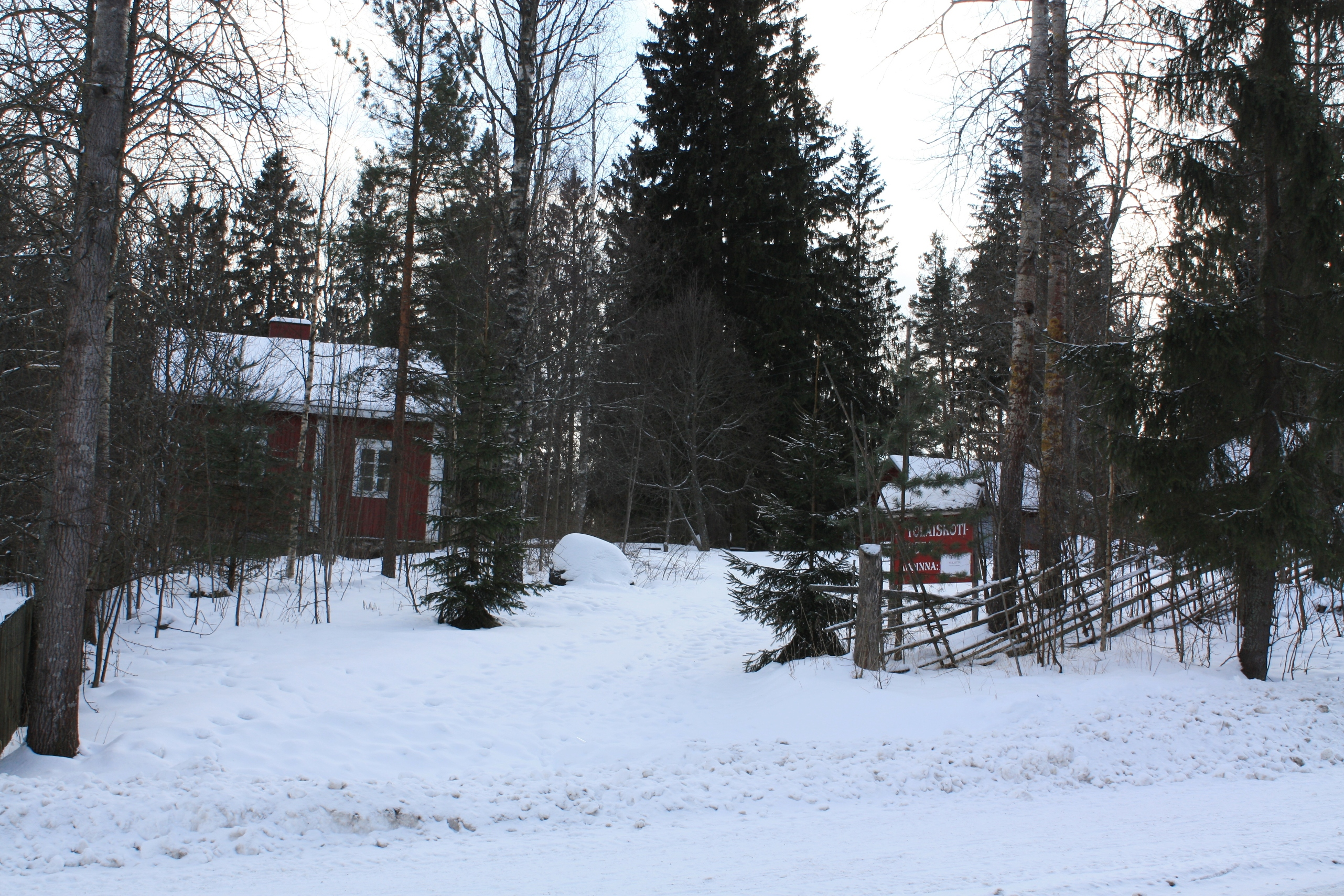 Home Museum of a blacksmith and a shoemaker near Tuusula Church